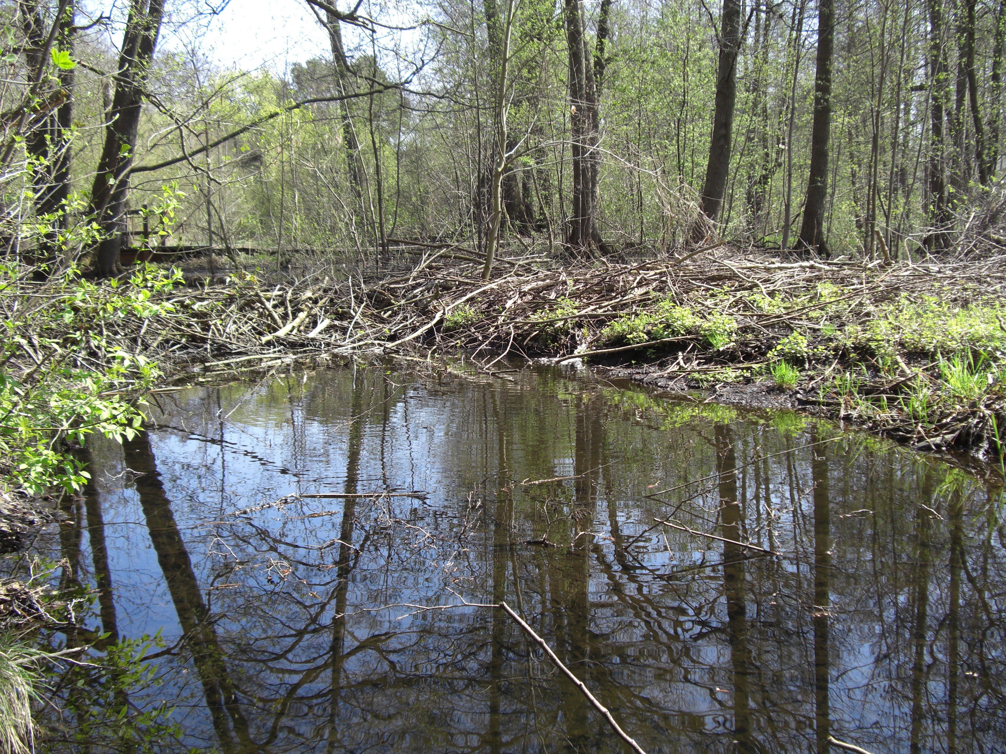 River Briese